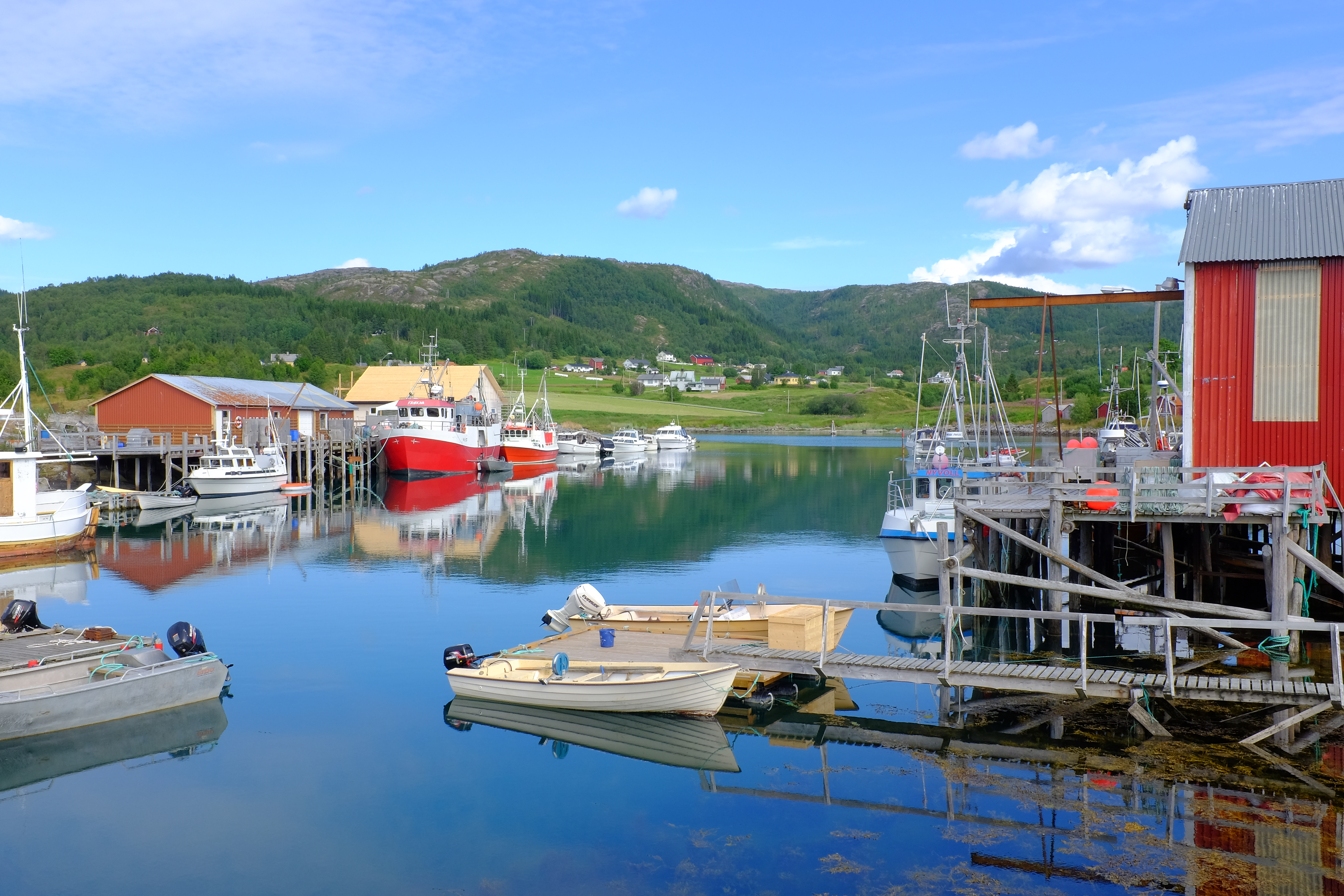 Styrkesvik is a village at the northern side of the fjord crossing Sørfolda and Leirfjorden, Sørfold, Nordland, Norway.